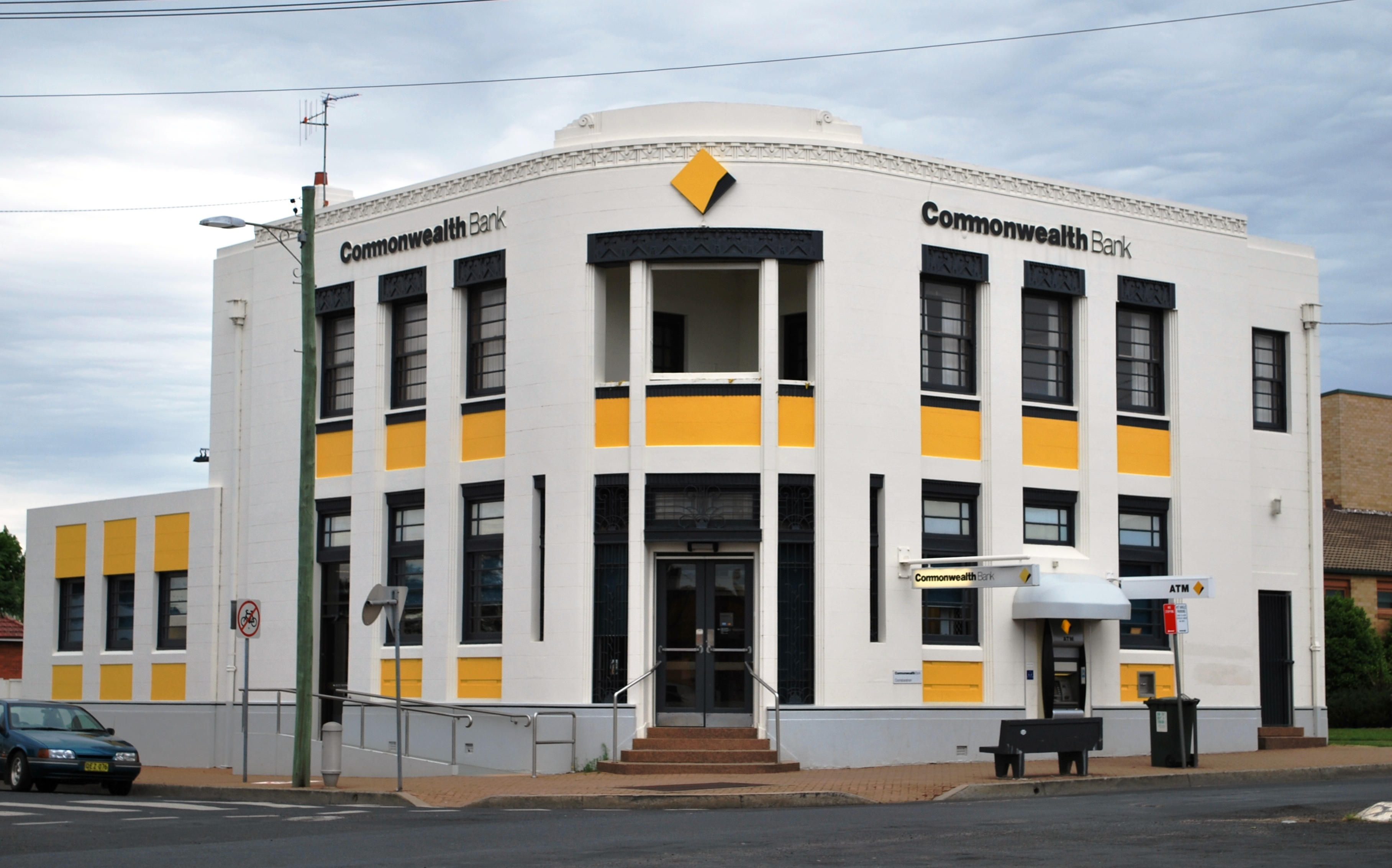 Commonwealth Bank in Coonabarabran, New South Wales